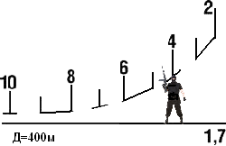 The bottom-left corner of the PSO-1 telescopic sight reticle contains a stadiametric rangefinder that can be used to determine the distance from a 1.7 m tall person/object from 200 m (2) to 1000 m (10). For this the lowest part of the target is lined up on the bottom horizontal line. Where the top of the target touches the top curved line the distance can be determined.